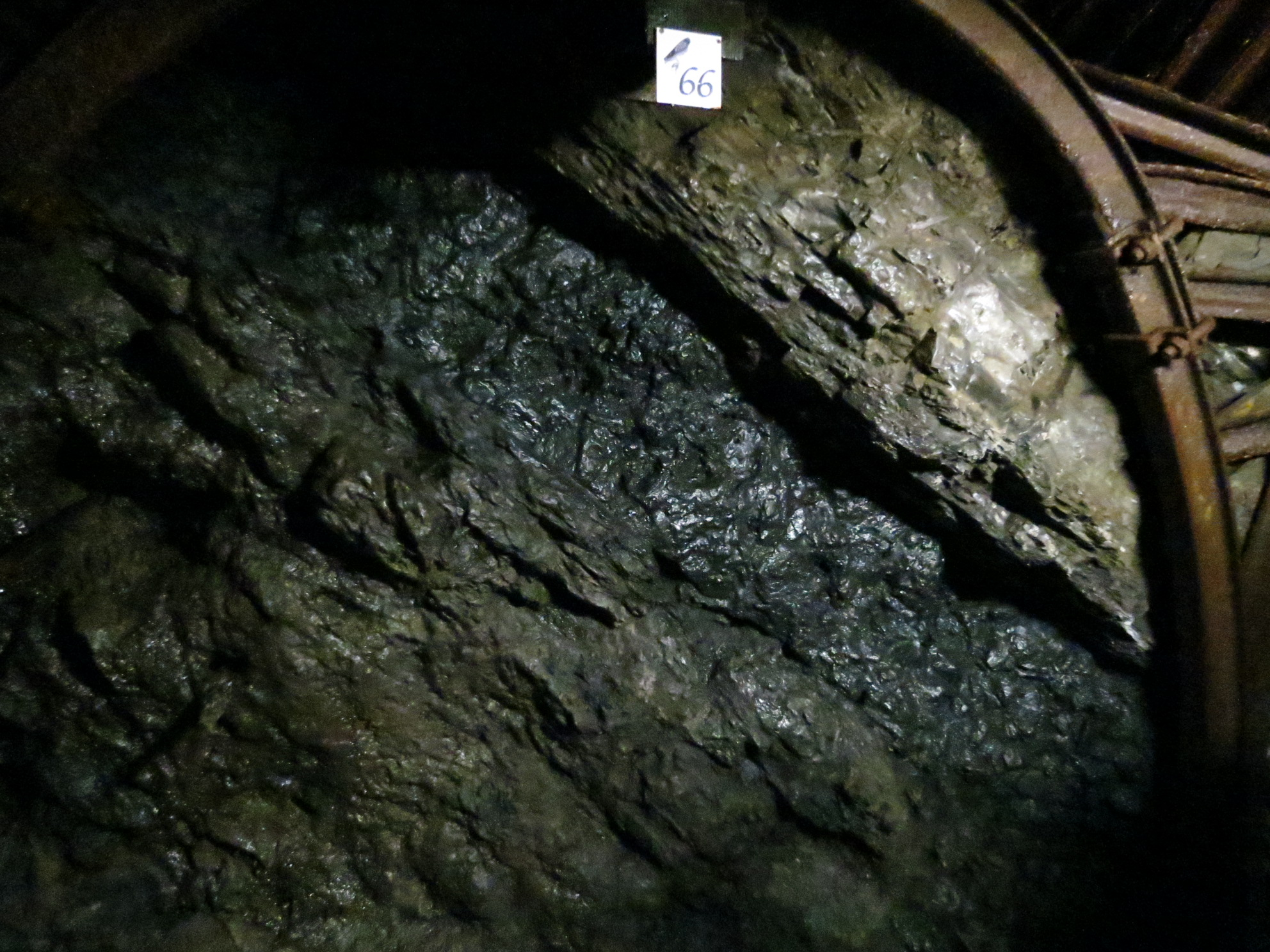 Coal Seam Grande Mascafia at -30 m in Blegny Mine, Belgium.